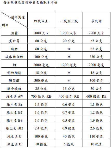 Nutrition facts label format 2-1 of Taiwan